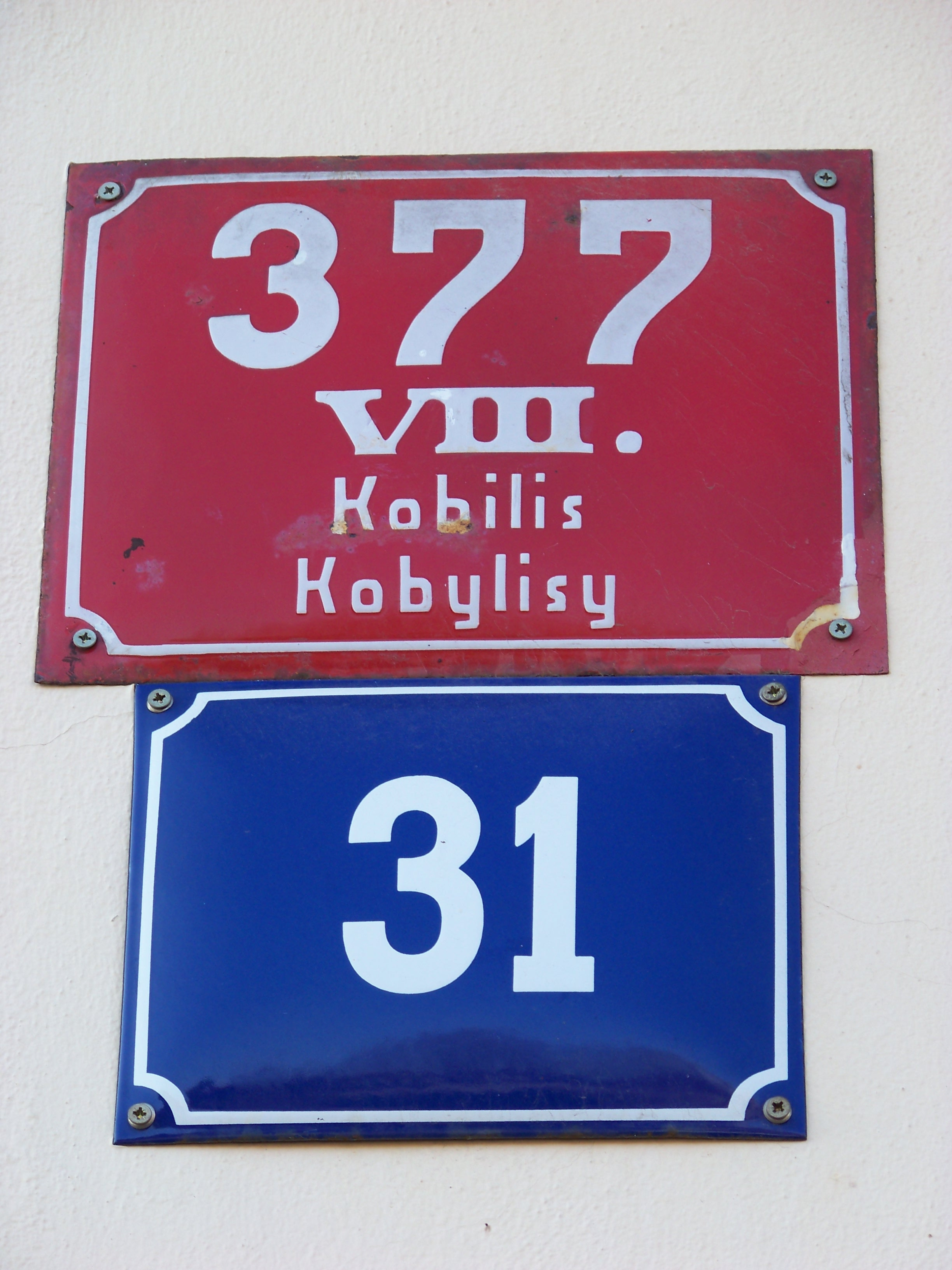 Prague-Kobylisy, the Czech Republic. Pakoměřická street, 377/31, house numbers.